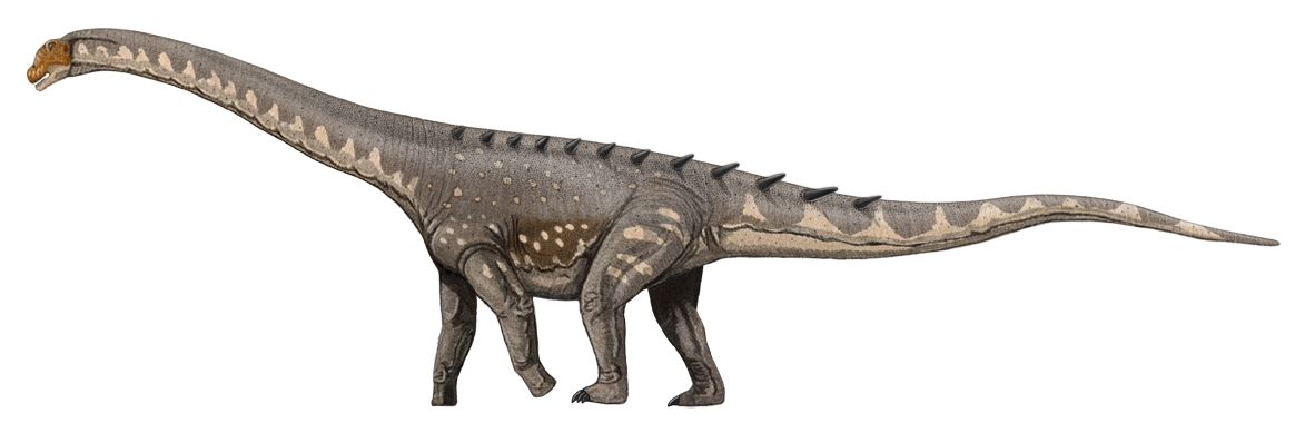 A hypothetical life restoration of Ampelosaurus atacis • Ampelosaurus is known from hundreds of fossil specimens which show most of the dinosaur's osteological details, however, there are few articulated remains or reconstructions of the material so its overall proportions and life appearance are uncertain. • Ampelosaurus is known to have supported osteoderms, only four are currently known. The number of these osteoderms that an individual Ampelosaurus would have supported in life and their and position on the body is not currently known. It's thought that due to the rarity of titanosaur osteoderms that they would be quite sparse on the body. The position and layout of the osteoderms has been loosely based on this interpretation, which is based on the work of Vidal et al 2015. [1]